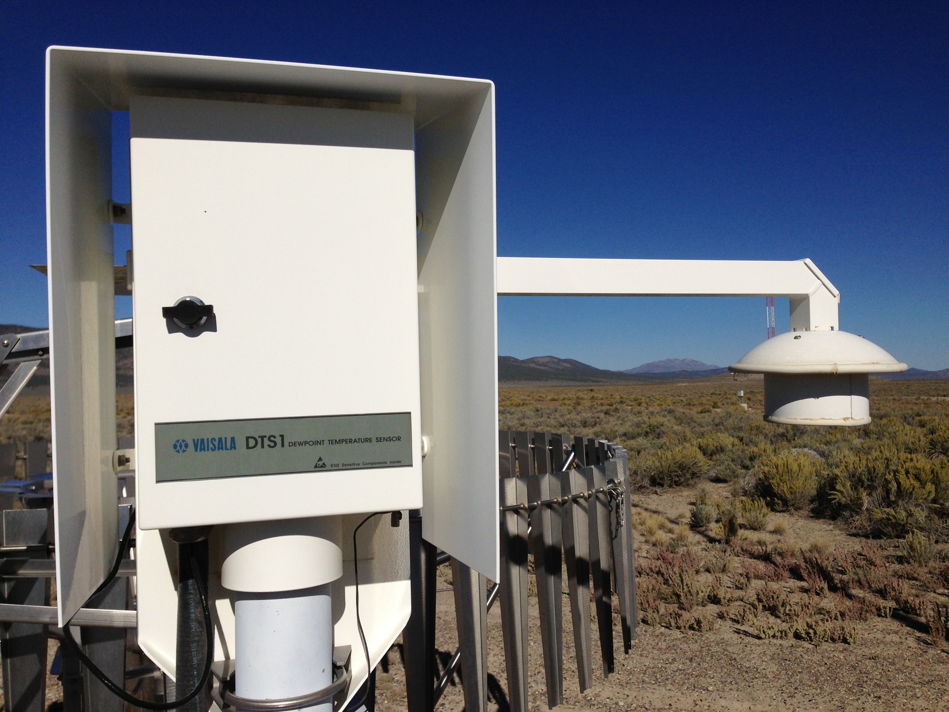 ASOS DTS-1 dewpoint sensor at Eureka Airport, Nevada